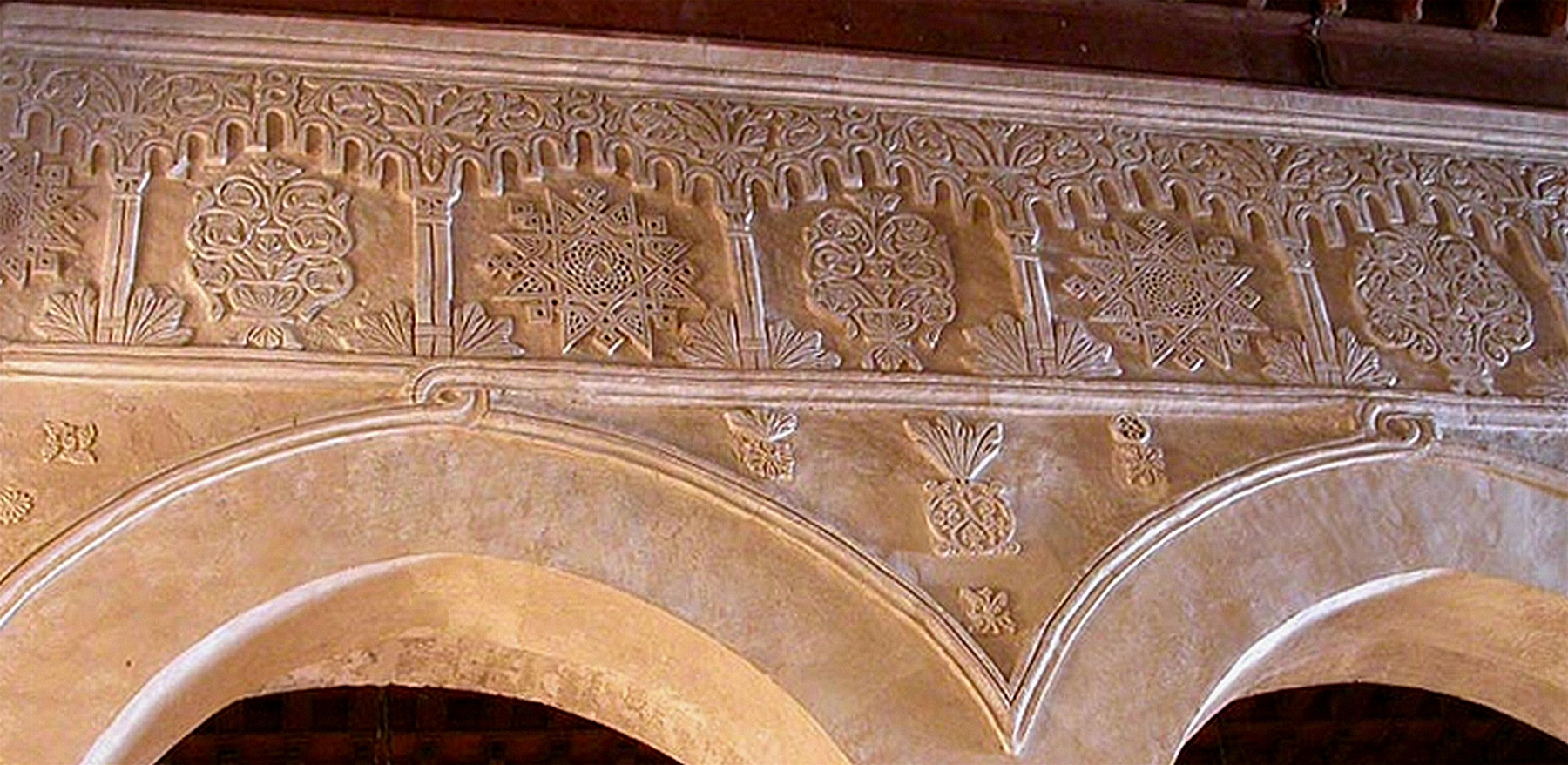 Carved plaster frieze surmounting the arches of the central nave of the prayer hall in the Great Mosque of Kairouan, in Tunisia.